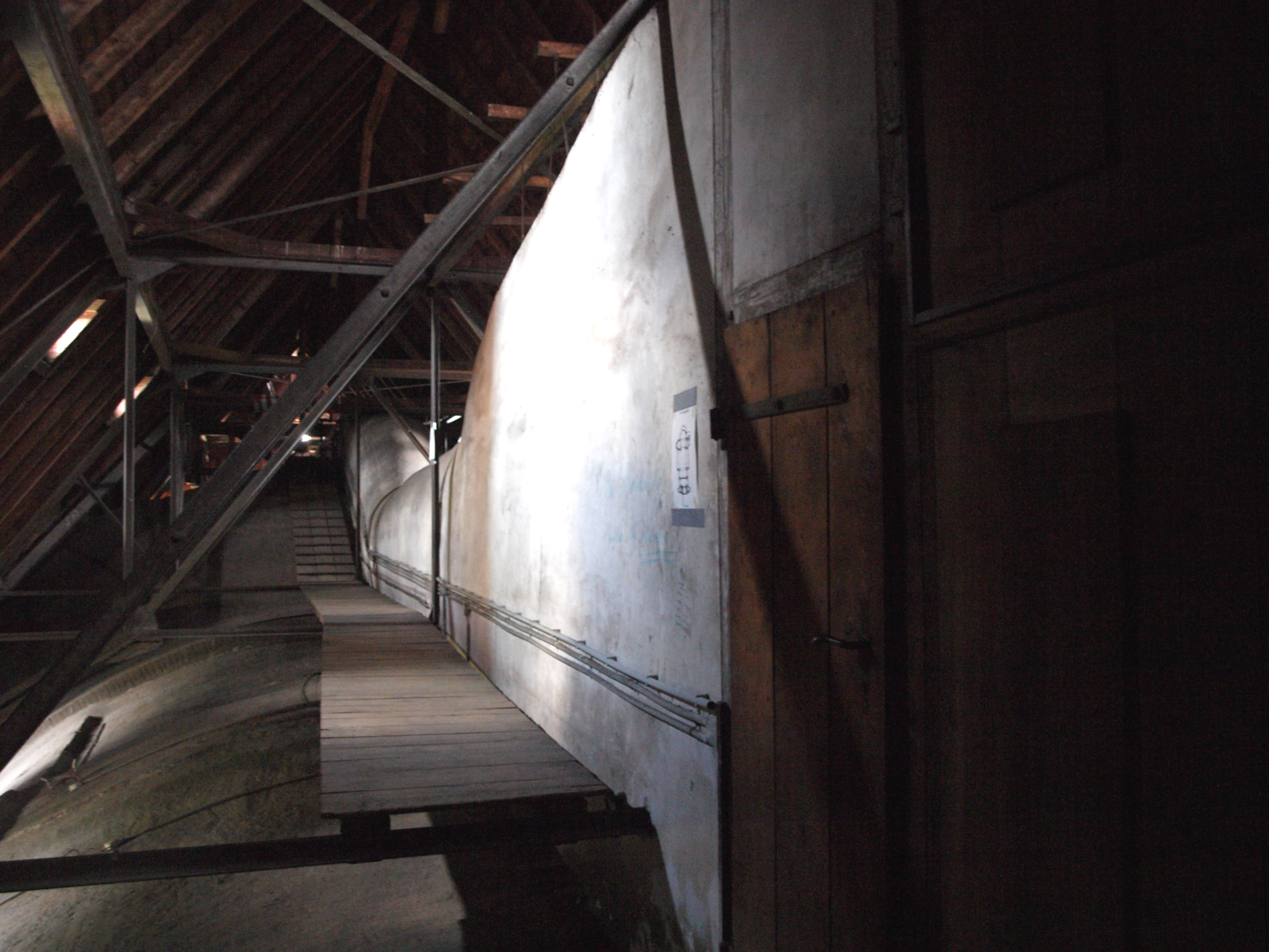 Church of the Redeemer, Bad Homburg, sound tunnel of the Fernwerk (distant pipes) in the roof framework